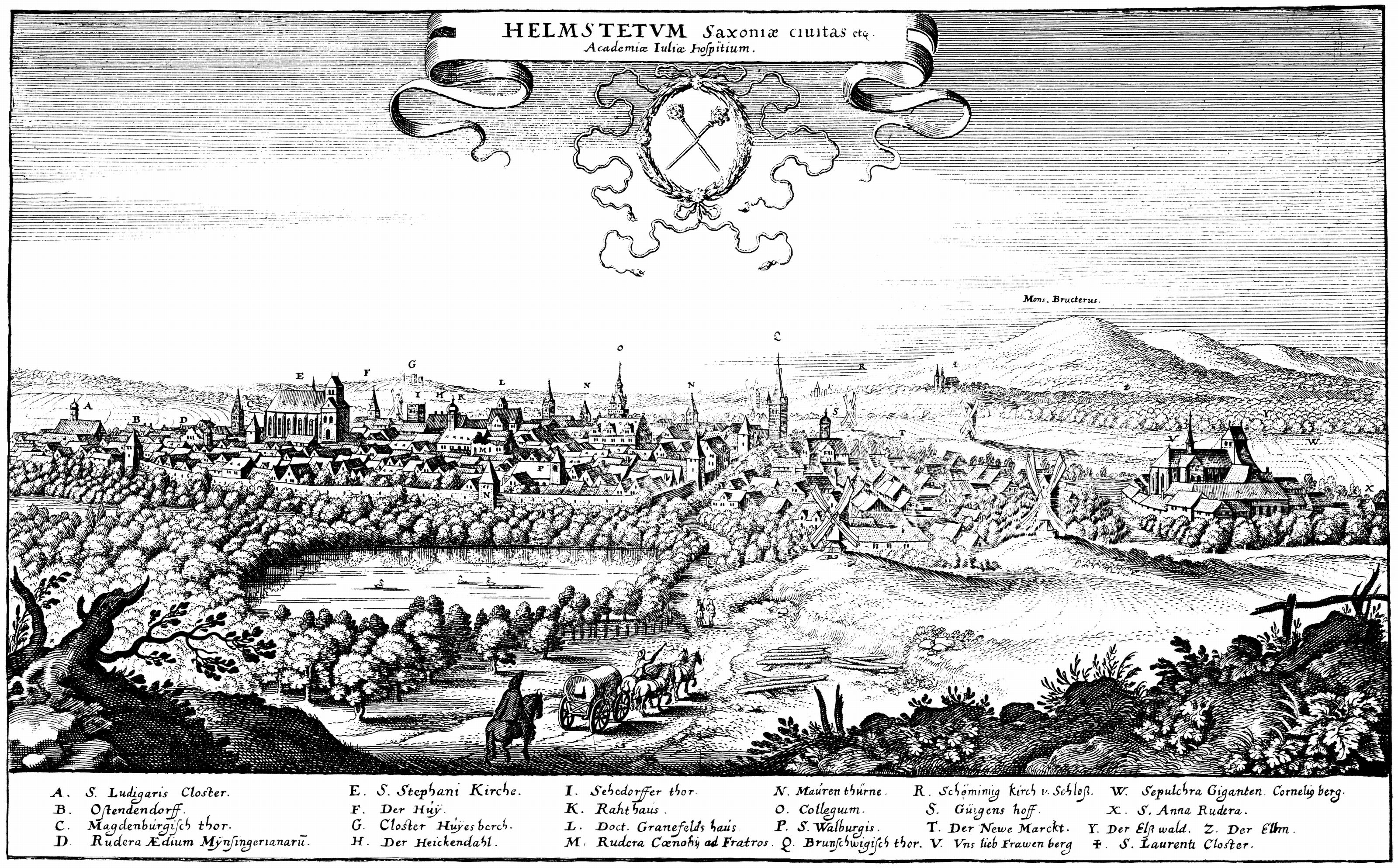 cityscape of Helmstedt by Matthäus Merian in the 17th century.